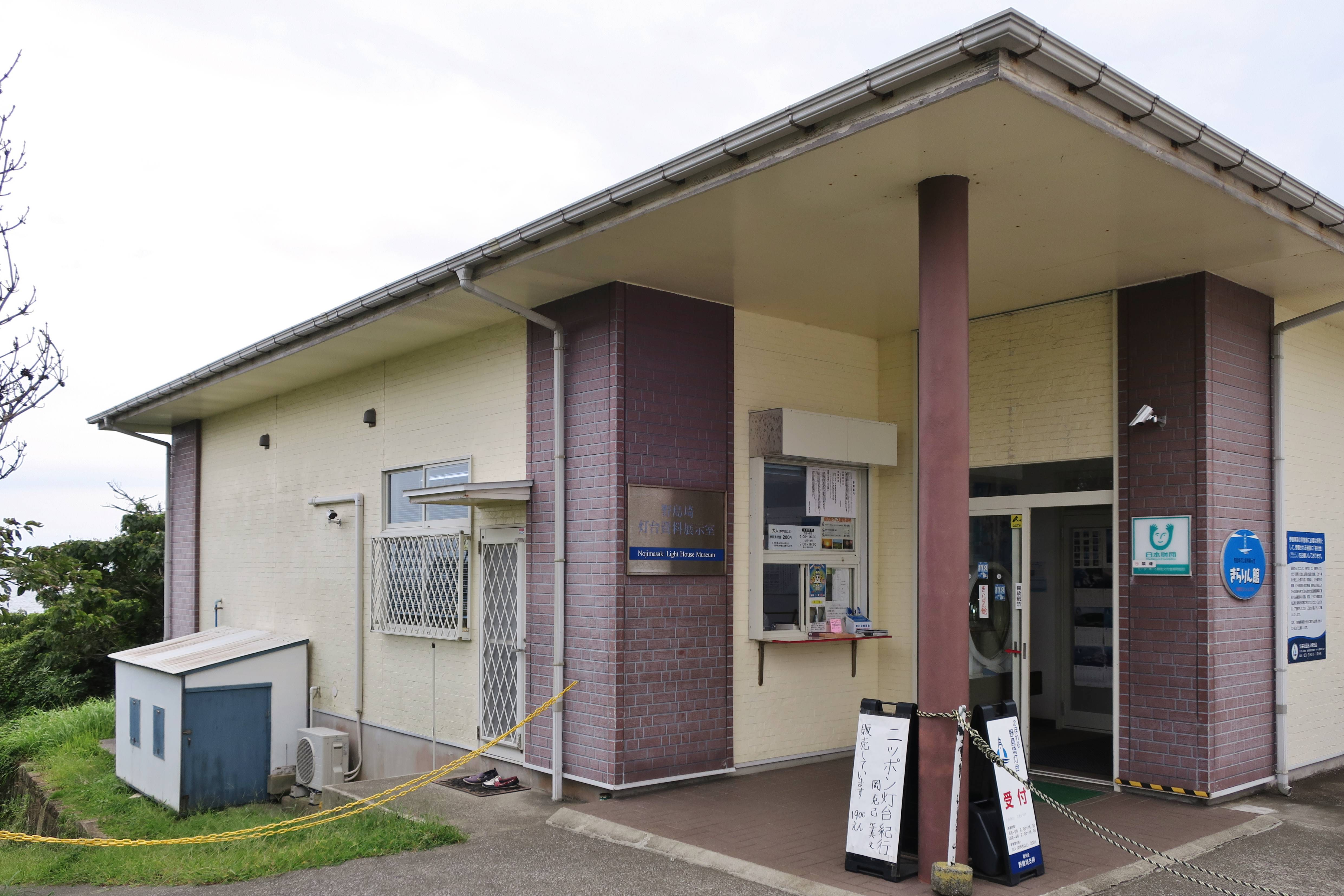 Nojimasaki Light House Museum (Minamiboso, Chiba).